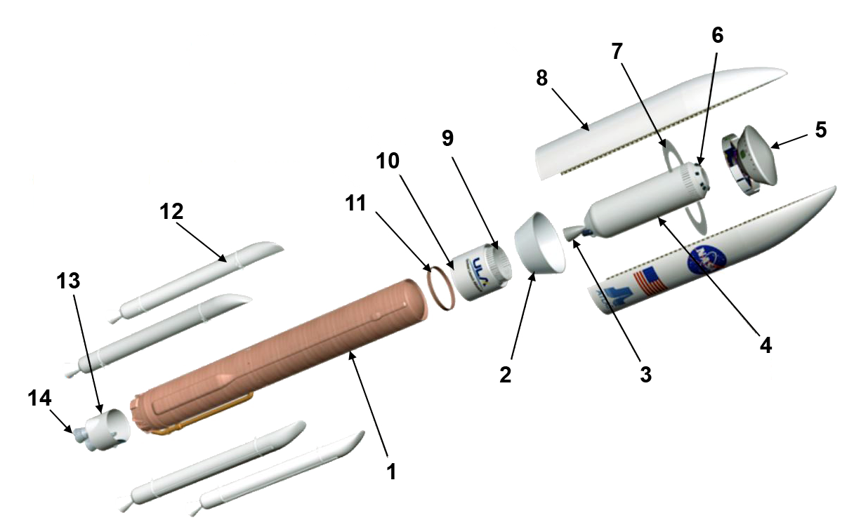 Atlas-V-541-launch-vehicle,-expanded-view